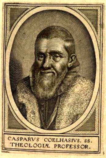 Illustrium Hollandiae Westfrisiae ordinum alma academia Leidensis Dedication portraits and portraits of Leiden professors, along with 4 scenes of university, library, anatomical room & hortus